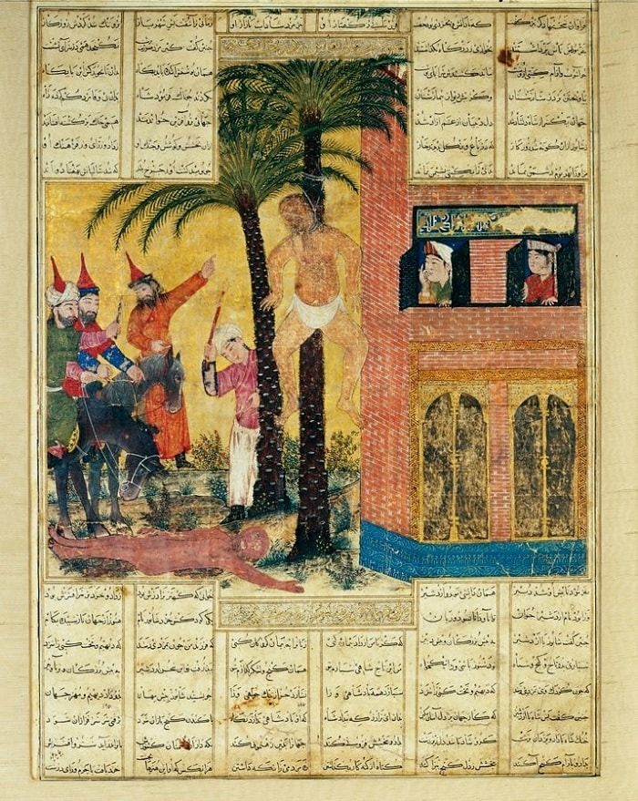 Execution of Mani, from the Great Mongol or Demotte Shahnameh (cf. [1])